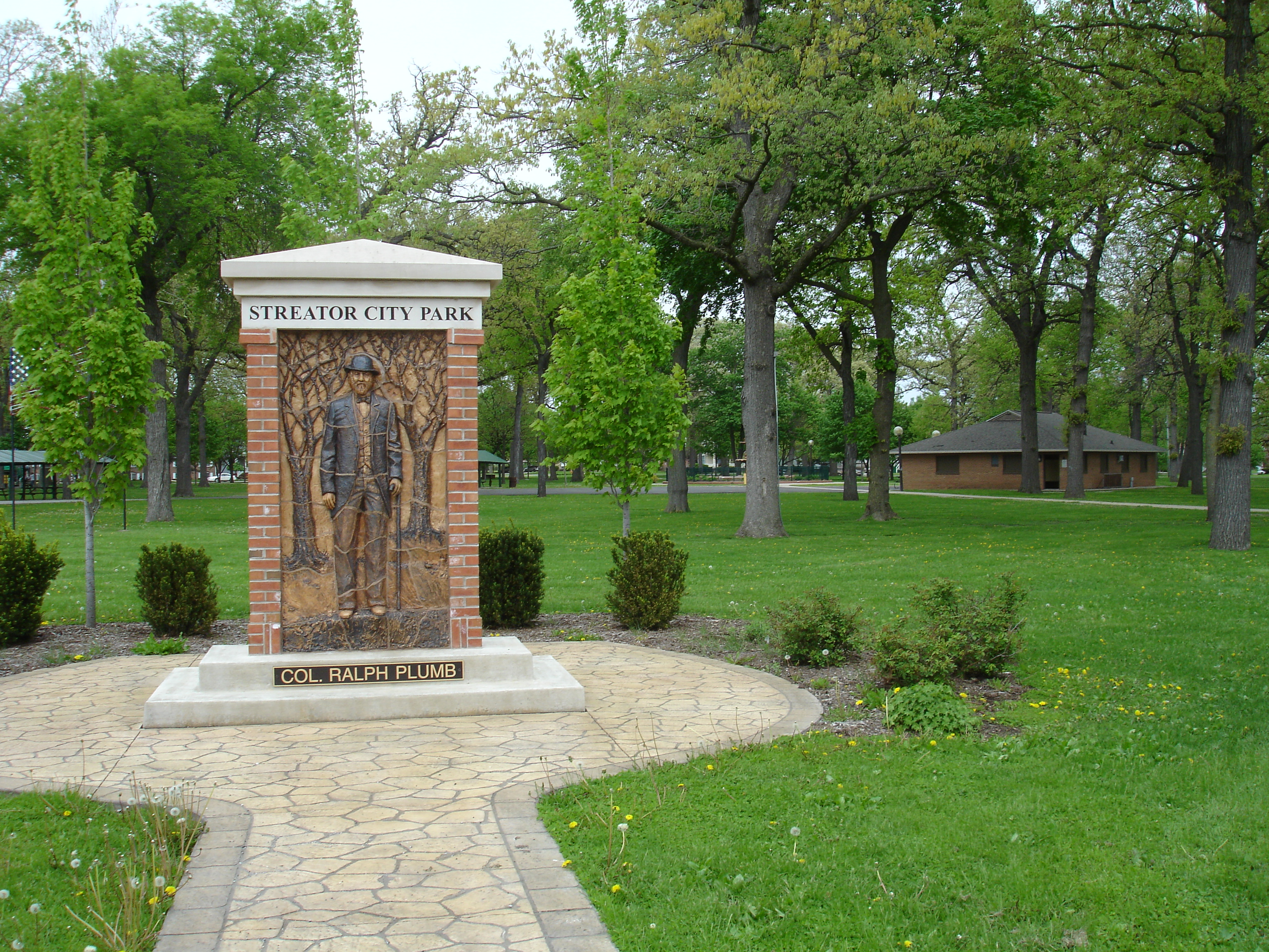 Relief sculpture of Col. Ralph Plumb (U.S. Representative 1885-1889) in Streator City Park, Streator, Illinois, USA.